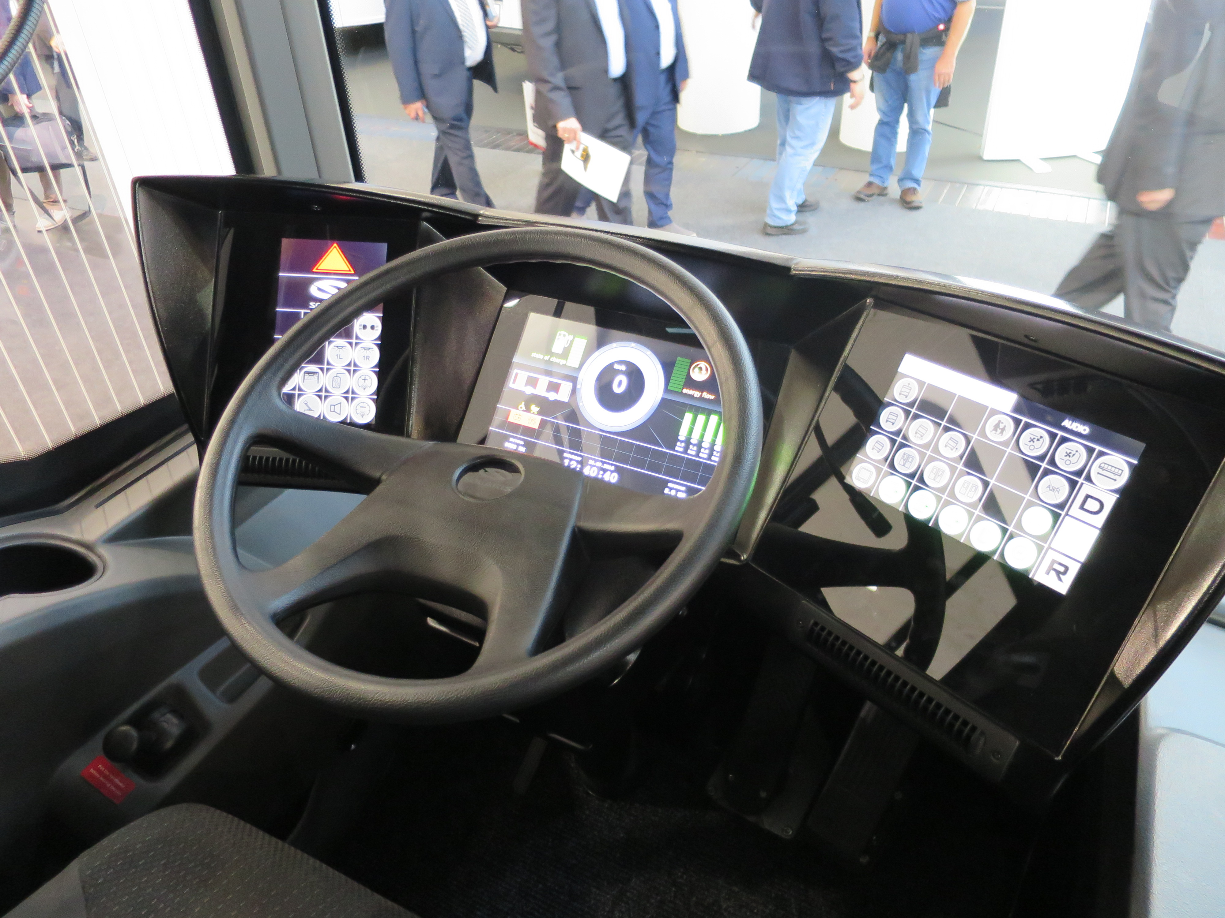 The making of this document was supported by Wikimedia Polska Association, within Wikigrant no. WG 2016-35. Solaris Urbino 12 electric